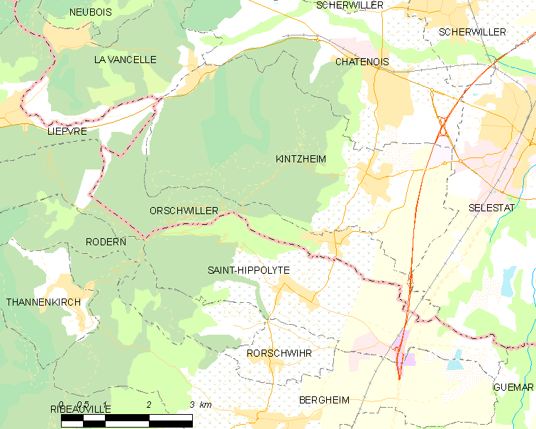 Map of French municipality